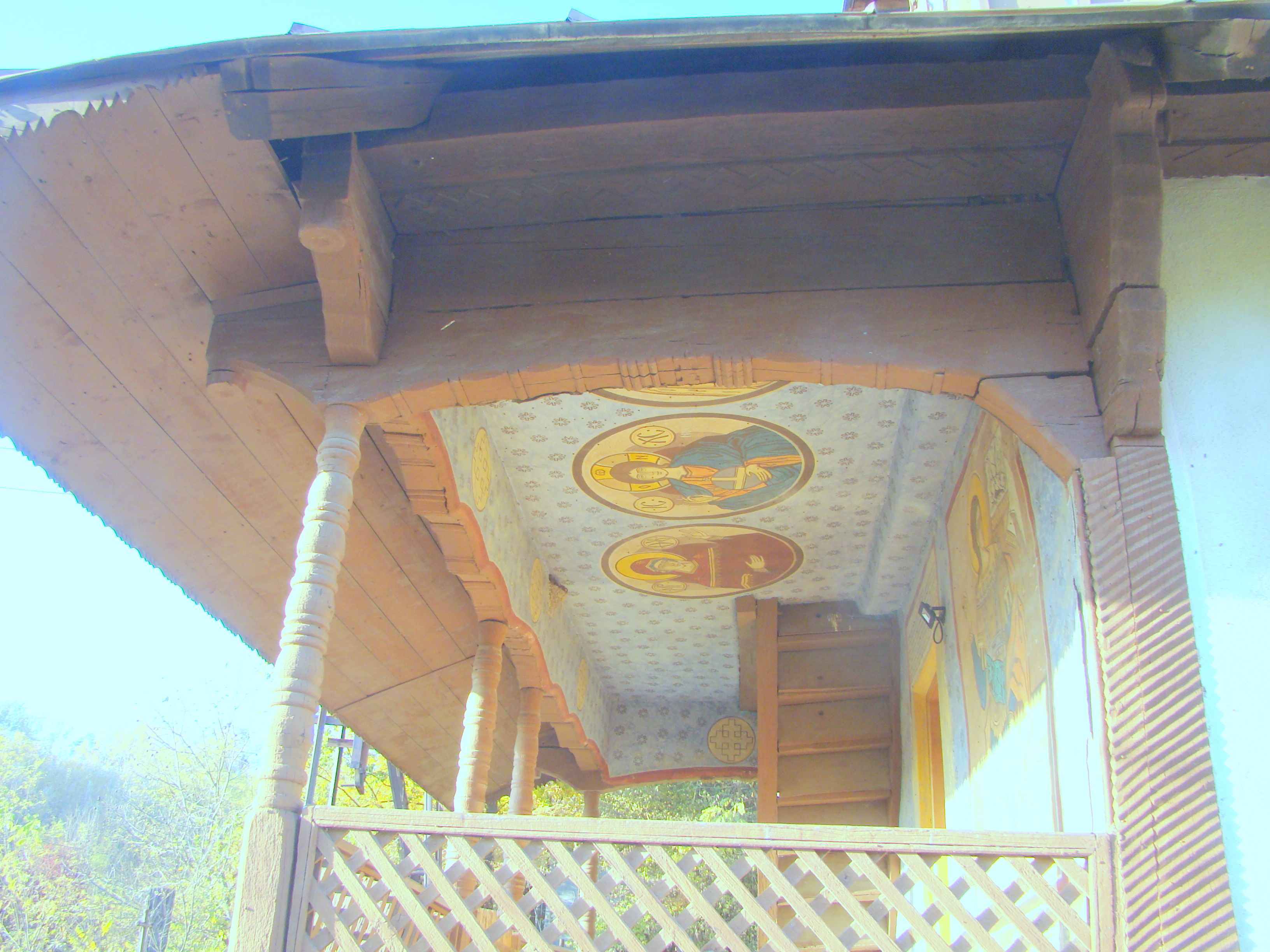 Wooden church in Horăști, Gorj county, Romania